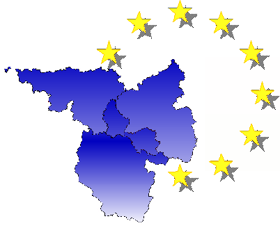 Emblem of SaarLorLux